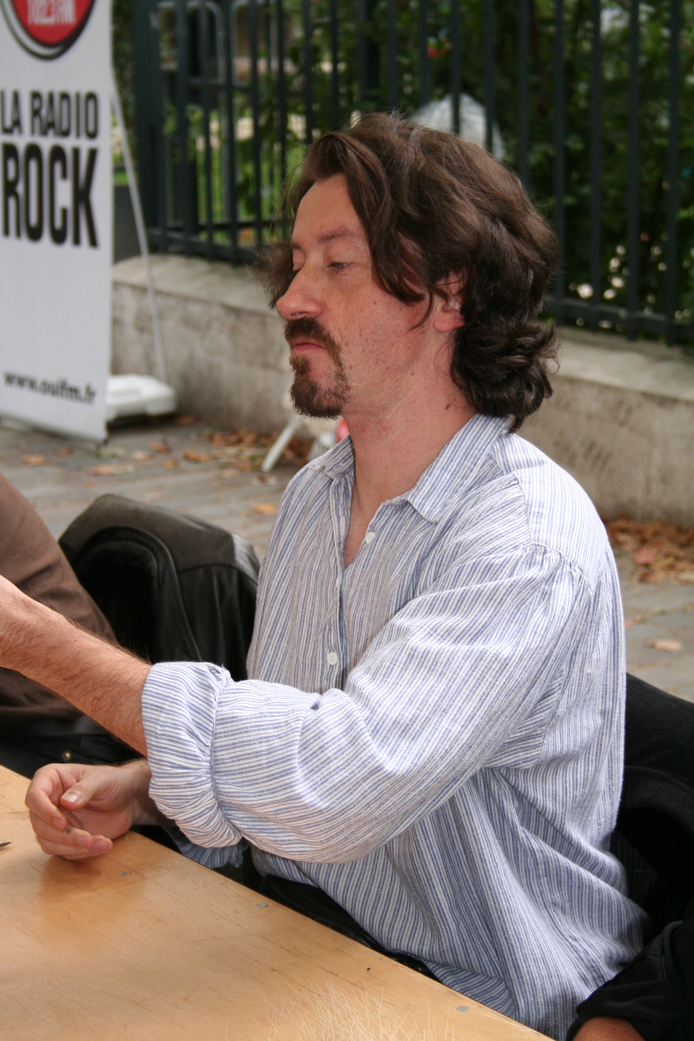 Autograph session with Jean-Luc Masbou at Delcourt festival 2006 (Paris, France).